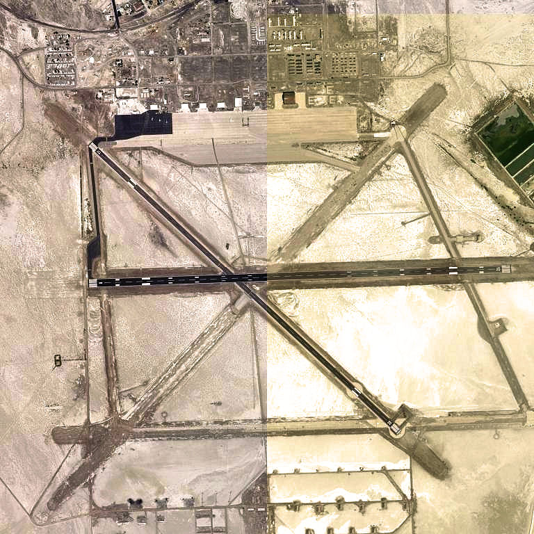 USGS digital orthophoto of Wendover Airport in Utah